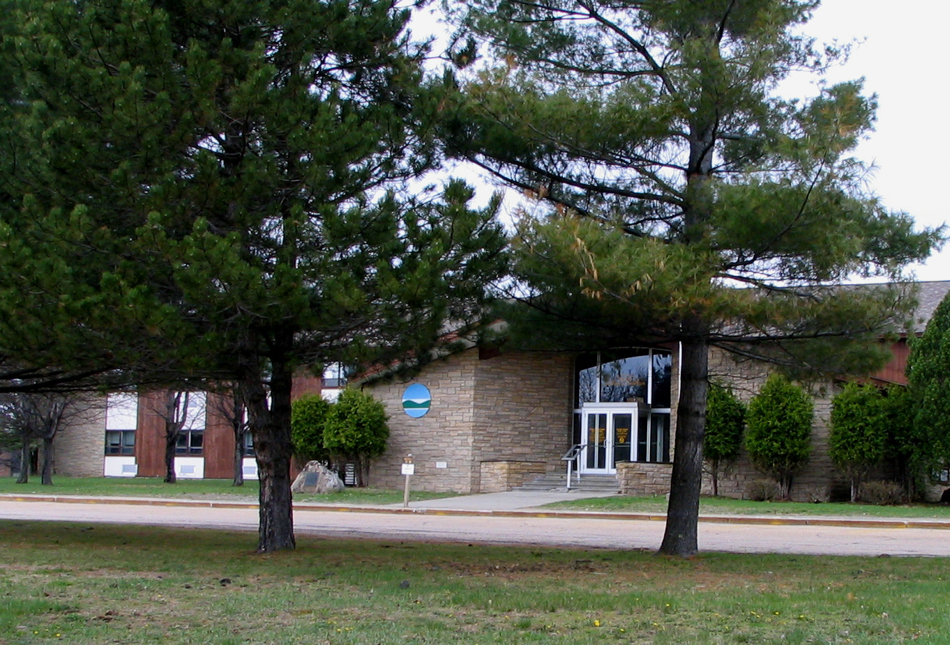 NY DEC Region 5 Headquarters, Ray Brook NY